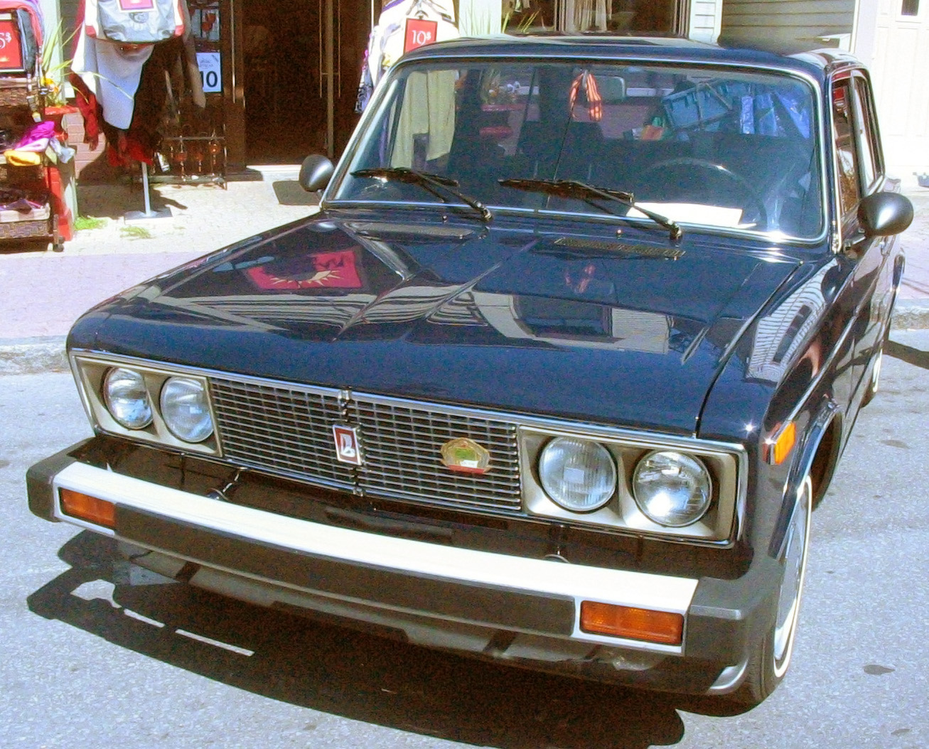 1981 Lada 1500 photographed in Pointe-Claire, Quebec, Canada at the Auto classique Pointe-Claire 2011 (most probably VAZ 21061-37 model)